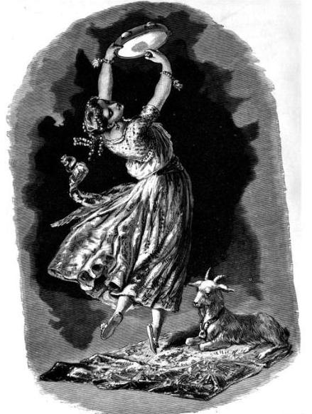 La Esmeralda. Illustration for Notre Dame de Paris by Victor Hugo. Artist unknown. Appears in "Victor Hugo and His Time" by Alfred Barbou. 1882. Taken from "Full View" Google Books PDF. Gavroche42 02:02, 27 March 2007 (UTC)